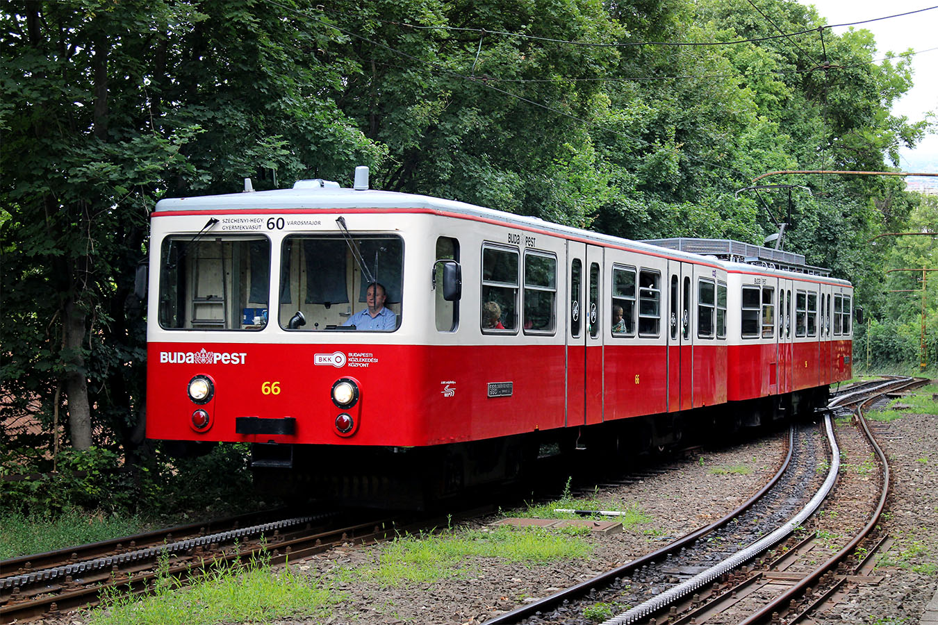 Budapest Cog-wheel Railway set in Budapest, Hungary